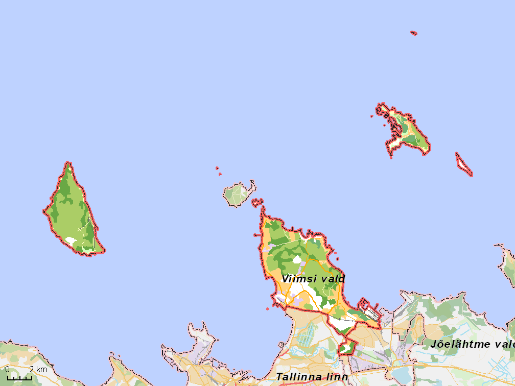 Map of municipality in Estonia